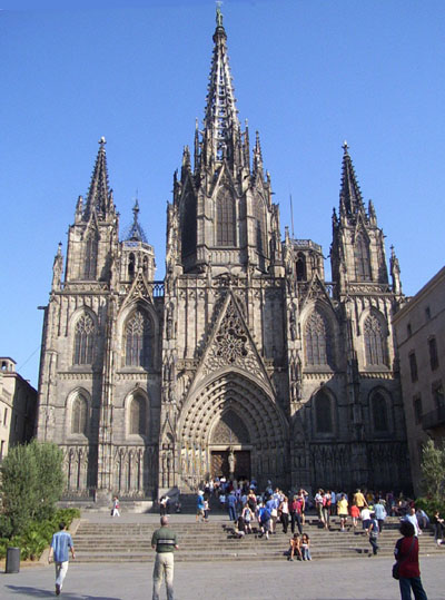 Cathedral of Barcelona before 2007 restoration